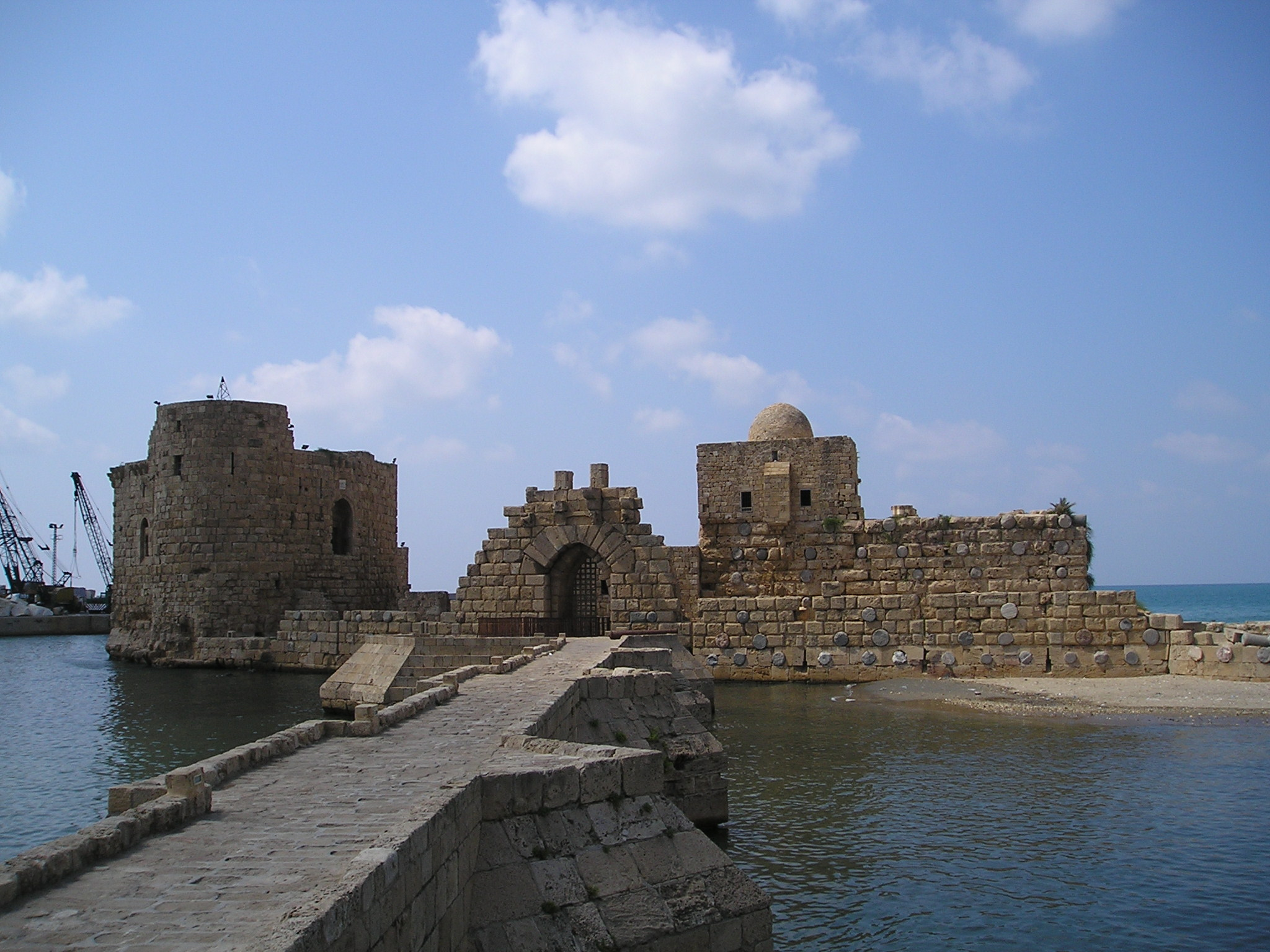 Sidon, Lebanon - a view of the Sea Castle from the stone bridge